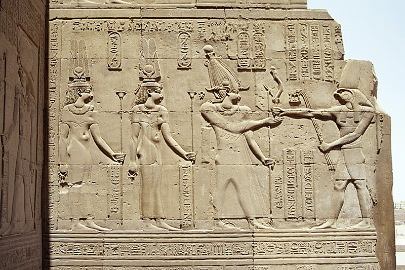 North wall in the hypostyl, Ptolemy VI with Cleopatra II and Cleopatra III receives scimitar and hebsed sign from Haroeris, Double temple of Kom Ombo, Egypt